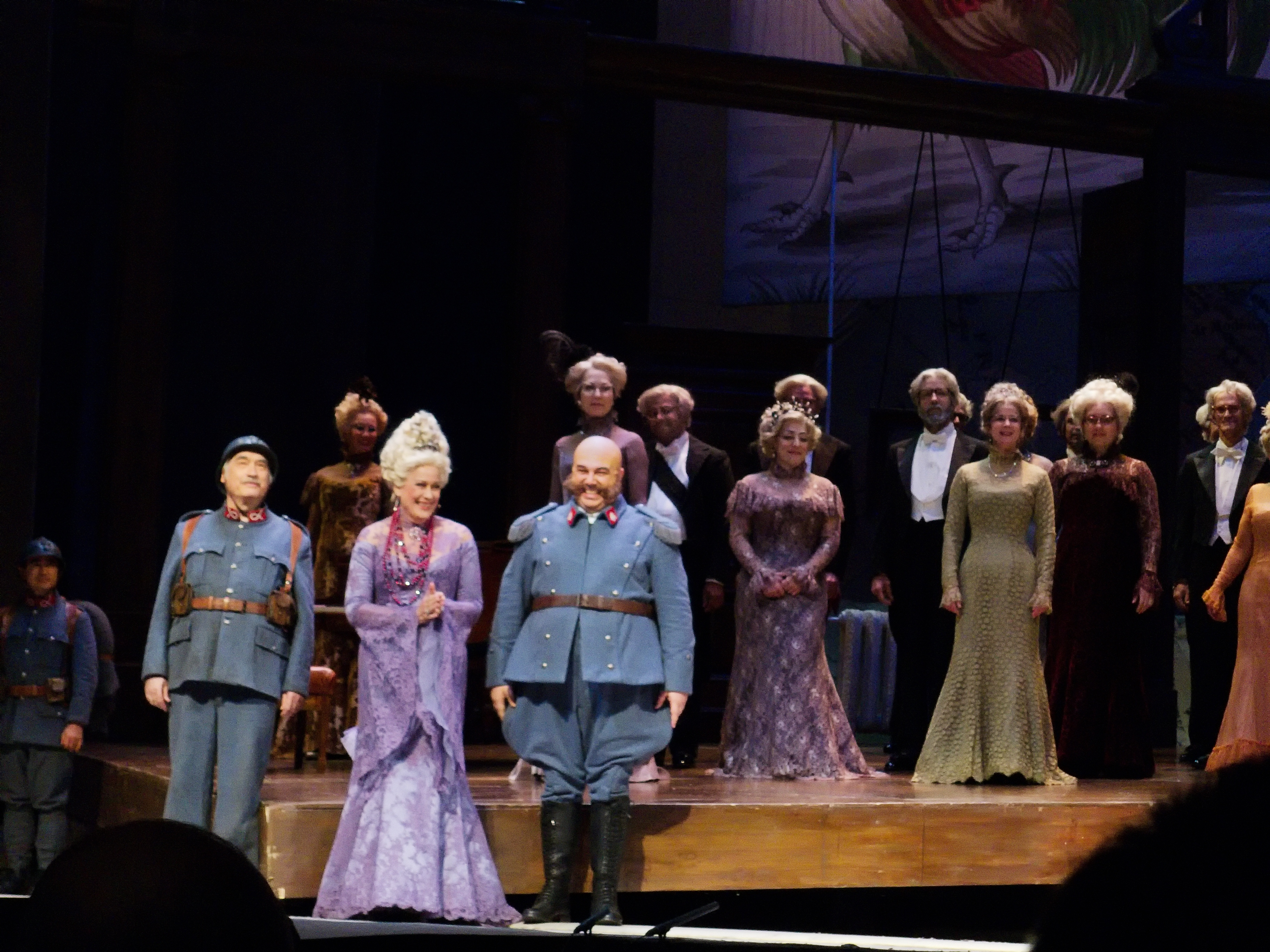 (L to R) Roger Andrews as Corporal; Kiri Te Kanawa as Duchesse of Krakentorp Maurizio Muraro as Sergeant Sulpice La fille du régiment (The Daughter of the Regiment), Metropolitan Opera House, December 24, 2011; Production and costumesː Laurent Pelly